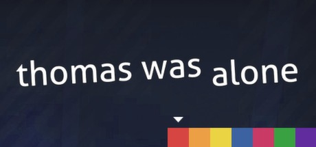 Universal cover art from the title 'Thomas Was Alone'.